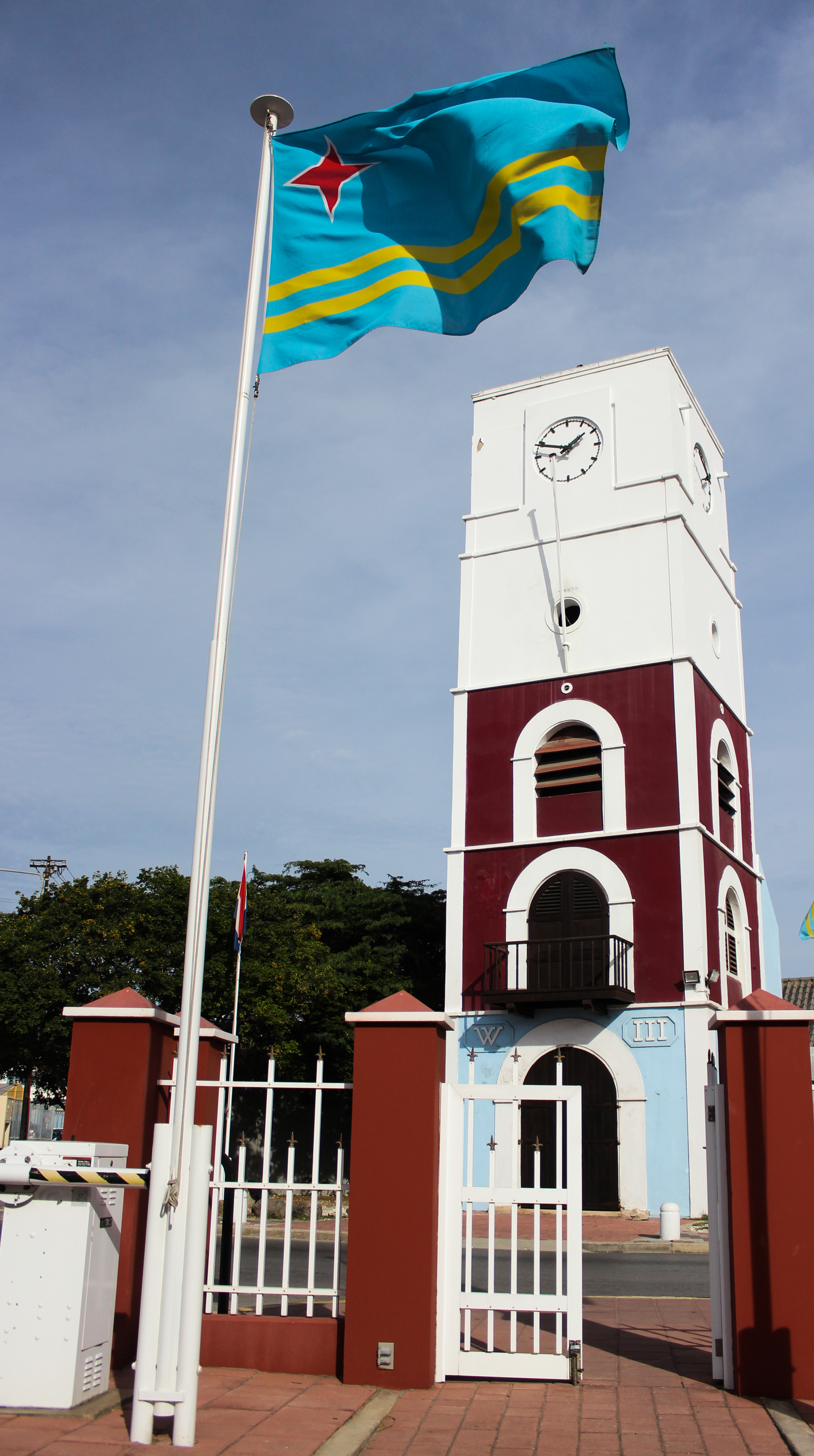 Fort Zoutman Willem lll Toren, i think the image can speak by itslef.